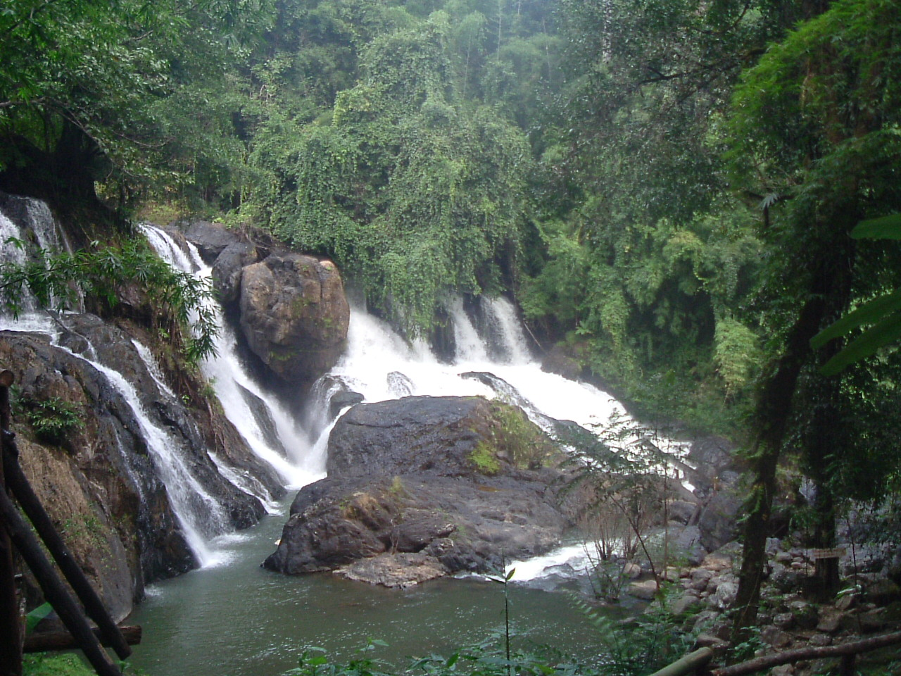 Pha Sua Waterfall - Mae Hong Son, Thailand - By Piyuth Noito.